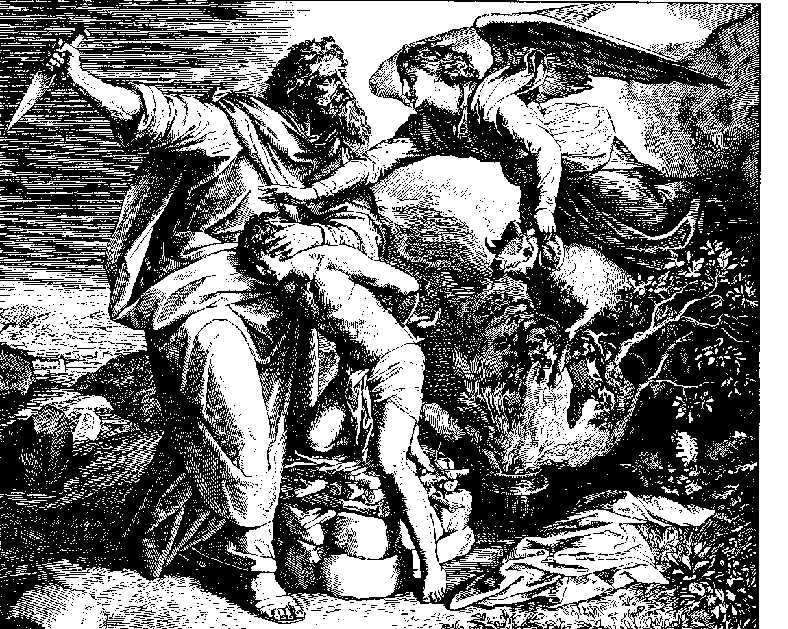 Woodcut for "Die Bibel in Bildern", 1860.